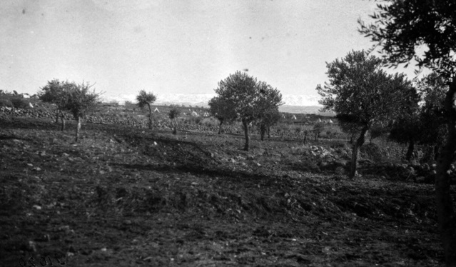 Photo of an Australian light horse camp near Tripoli Other information Copyright expired access unrestricted